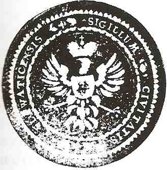 Imprint of seal of Sławatycze from 1765-1802